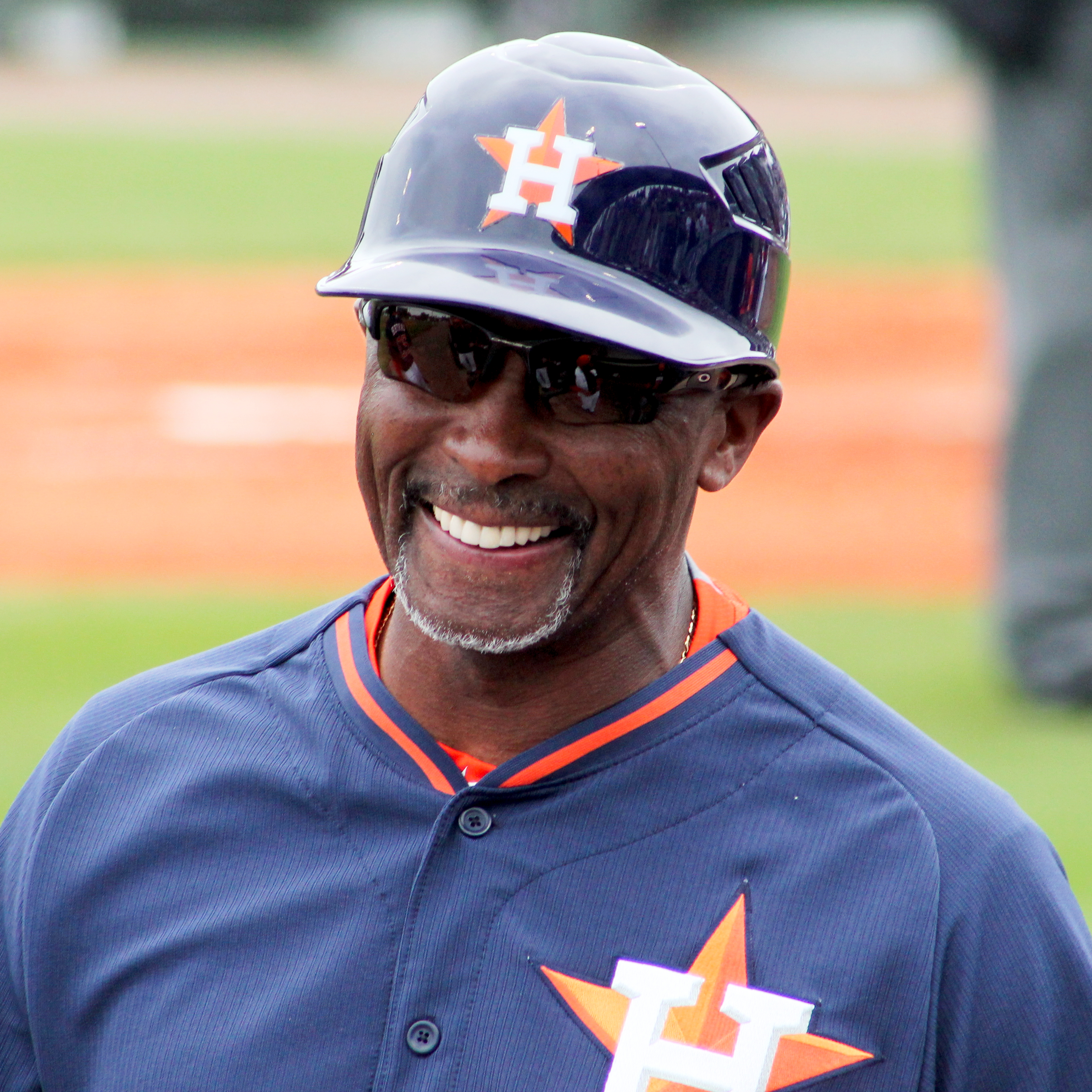 Professional baseball coach Gary Pettis at a spring training game with the Astros in March 2015.